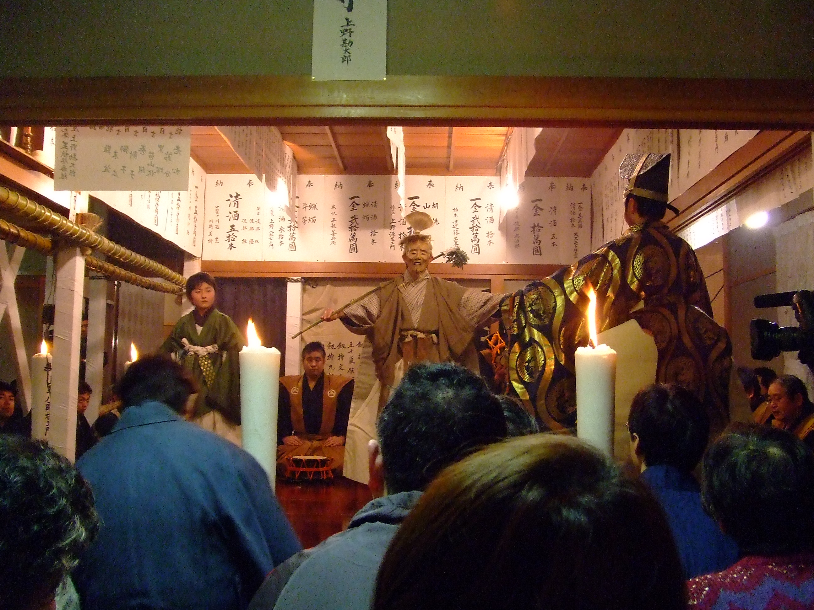 From a performance at the Kurokawa Noh Festival in Tsuruoka City, Yamagata Prefecture, Japan. I took this photo with a digital camera on 1st February 2007.